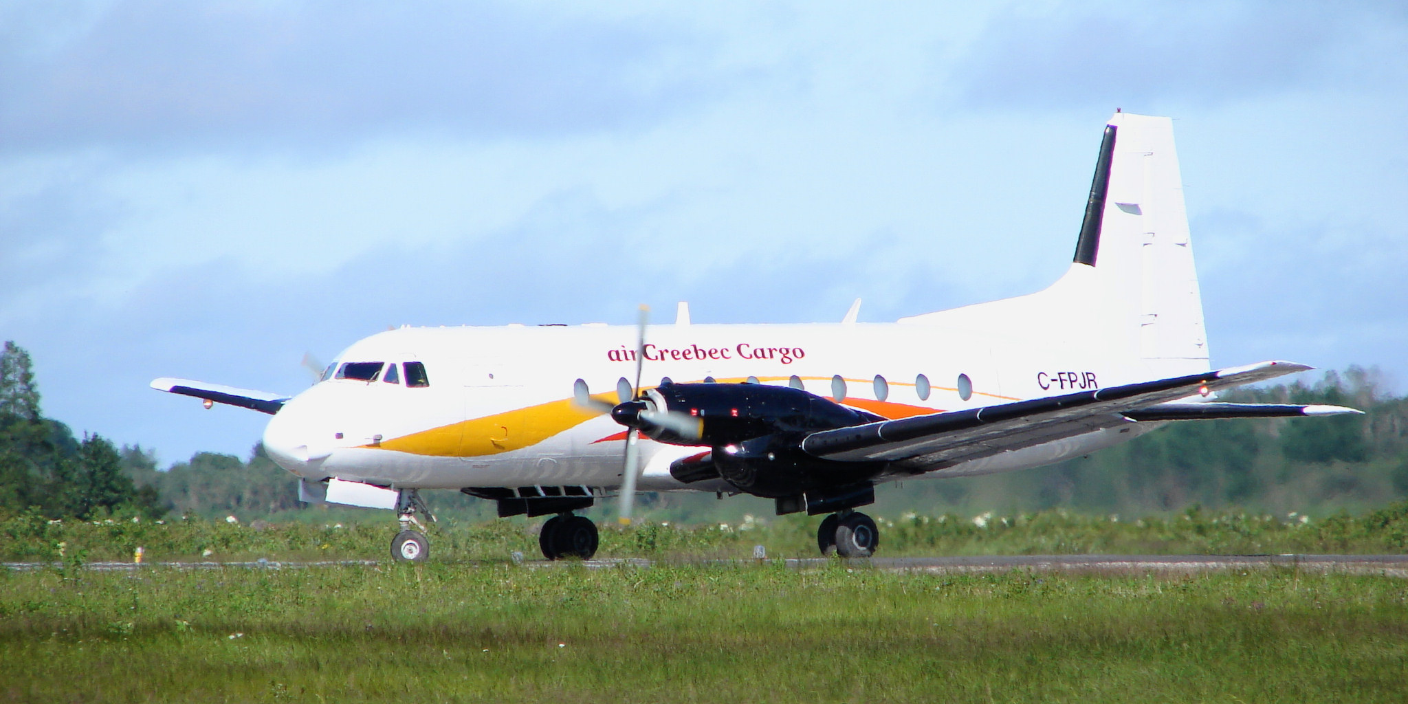 Hawker Siddeley HS 748 cargo plane of Air Creebec at Moosonee Airport, Ontario, Canada